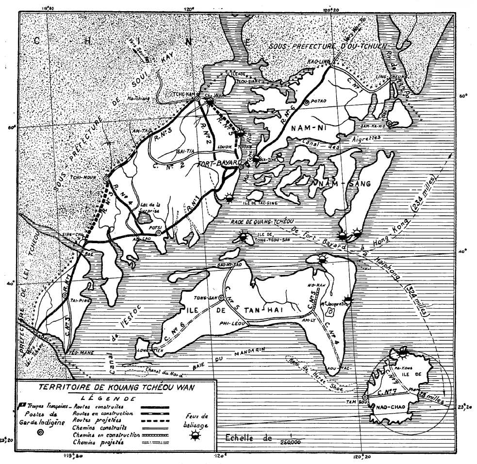 Drawing of the French leased territory of Kouang-Tchéou-Wan (Kwanchowan, Guangzhouwan) published in 1931.